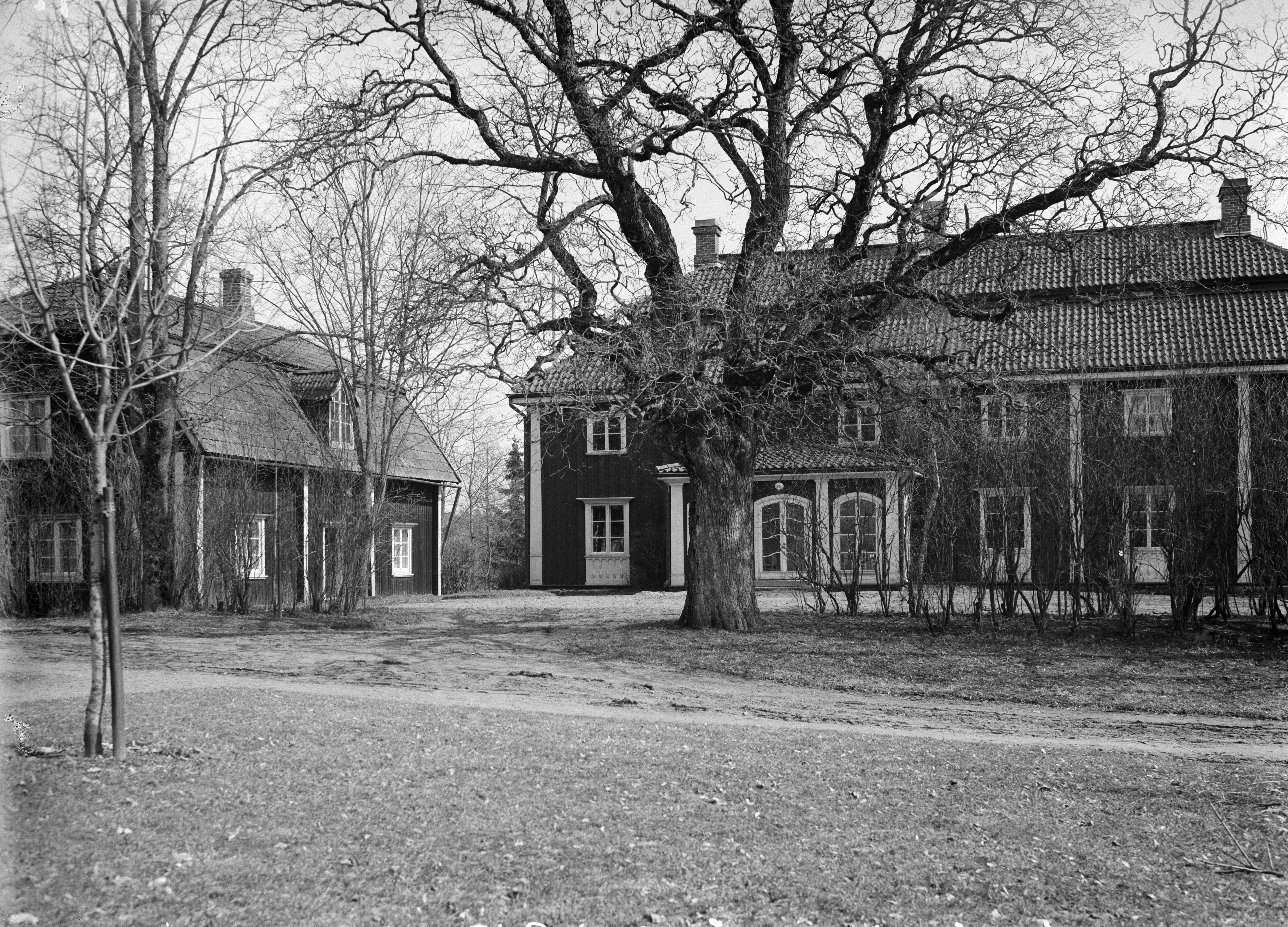 Koski manor in 1929, Perniö, Finland